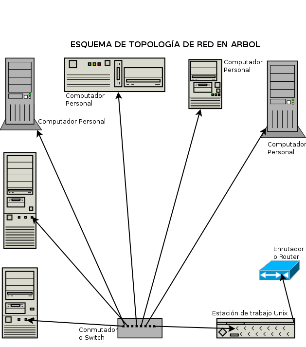 A simple tree network topology connecting personal computers through a switch. The diagram was made using the Gnu/Linux Dia software in a Mandriva distribution.